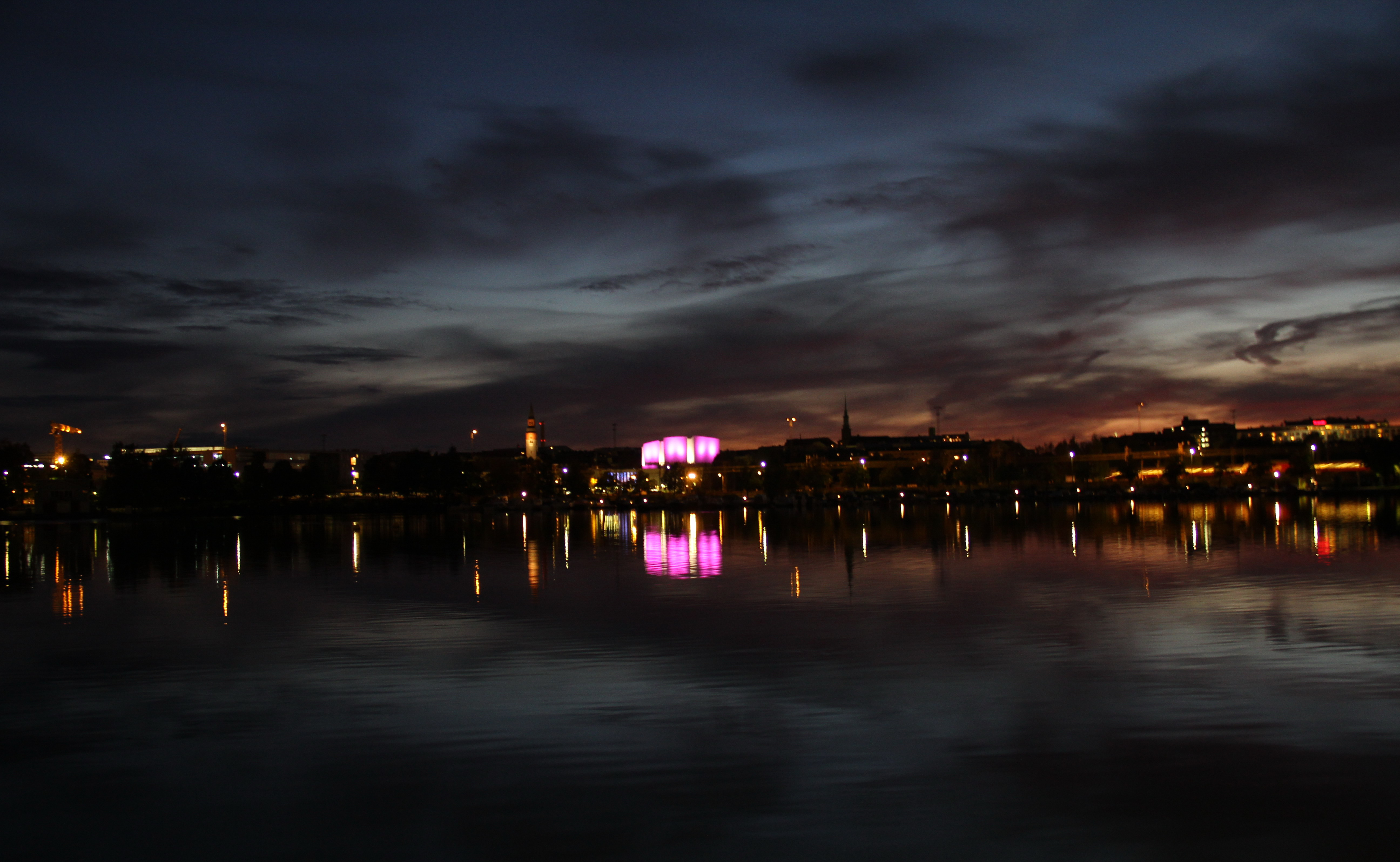 Finlandia Hall, Helsinki, Finland. It was illuminated pink to support the first ever UN International Day of the Girl Child on 2012-10-11.